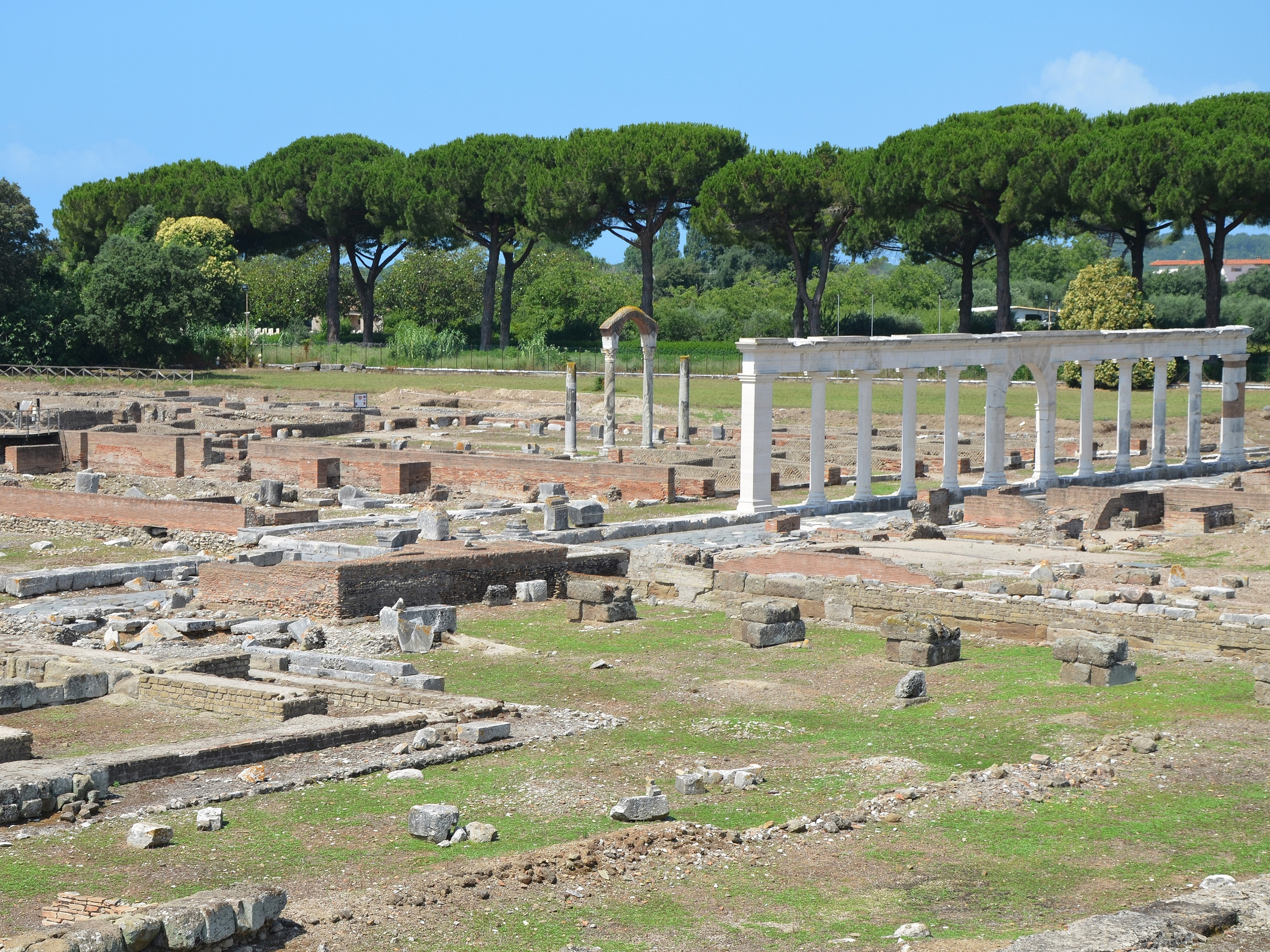 Overview of Minturnae, Minturno, Italy